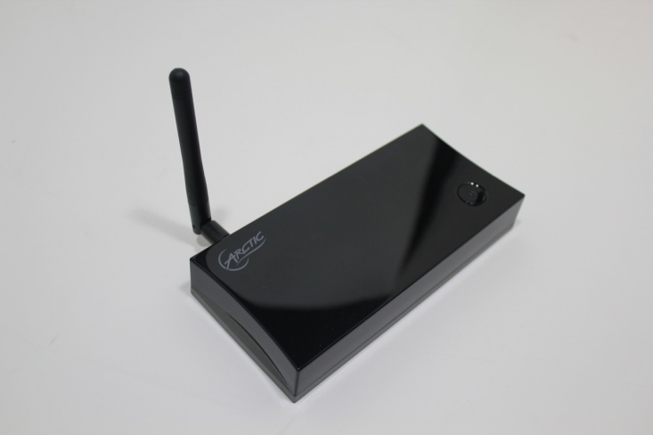 The Audio Relay from Arctic is a digital media receiver that connects to your home network and retrieve data from your computer.